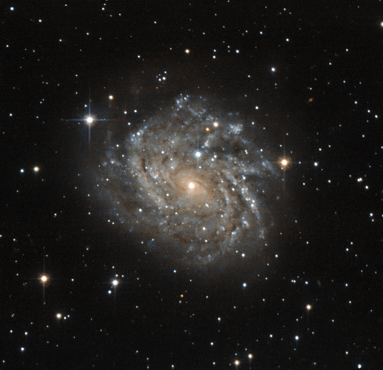 This little-known galaxy, officially named J04542829-6625280, but most often referred to as LEDA 89996, is a classic example of a spiral galaxy. The galaxy is much like our own galaxy, the Milky Way. The disc-shaped galaxy is seen face on, revealing the winding structure of the spiral arms. Dark patches in these spiral arms are in fact dust and gas — the raw materials for new stars. The many young stars that form in these regions make the spiral arms appear bright and bluish. The galaxy sits in a vibrant area of the night sky within the constellation of Dorado (The Swordfish), and appears very close to the Large Magellanic Cloud — one of the satellite galaxies of the Milky Way. The observations were carried out with the high resolution channel of Hubble’s Advanced Camera for Surveys. This instrument has delivered some of the sharpest views of the Universe so far achieved by mankind. This image covers only a tiny patch of sky — about the size of a one cent euro coin held 100 metres away! A version of this image was entered into the Hubble’s Hidden Treasures image processing competition by flickr user c.claude.